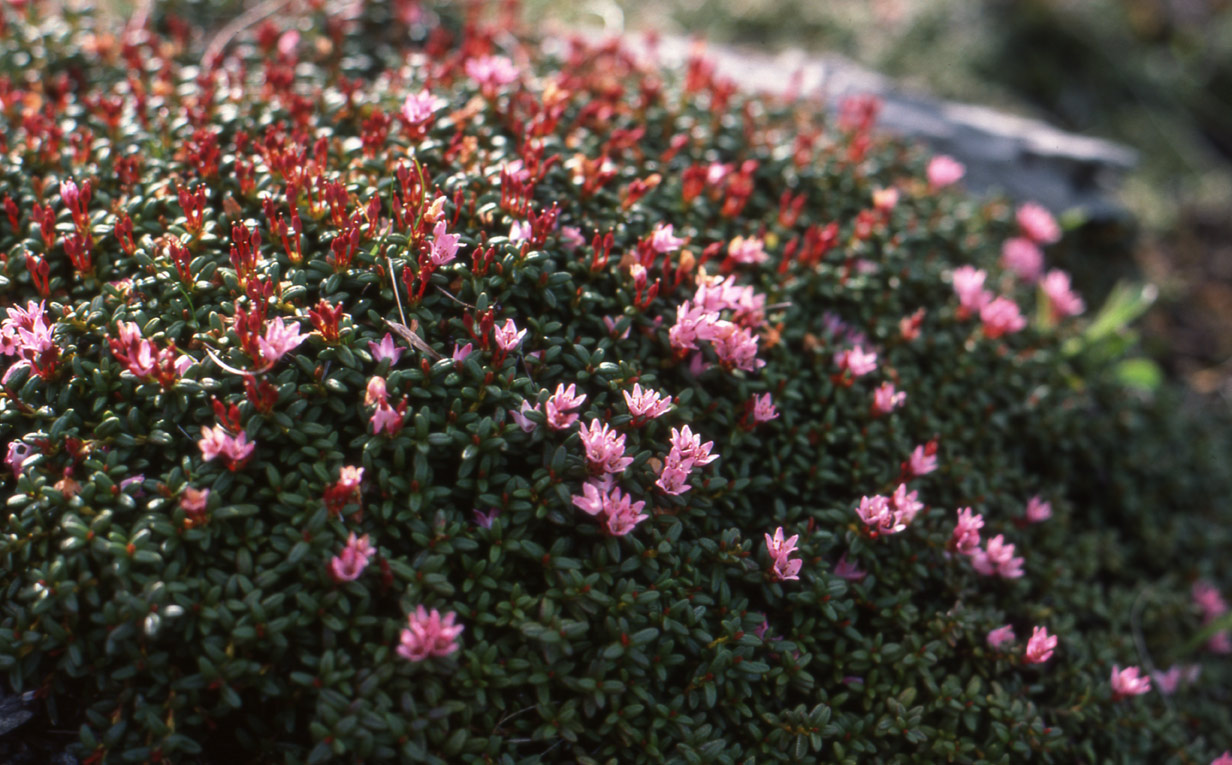 Loiseleuria procumbens, Padjelanta national park Sweden